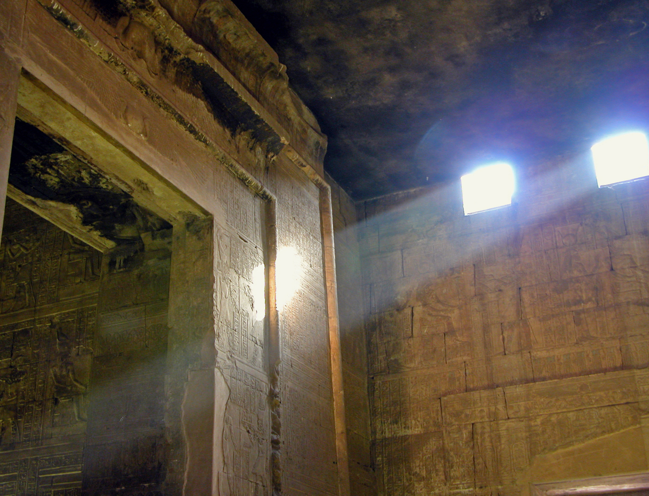 Ray of light entering the Temple of Horus, Edfu, Egypt